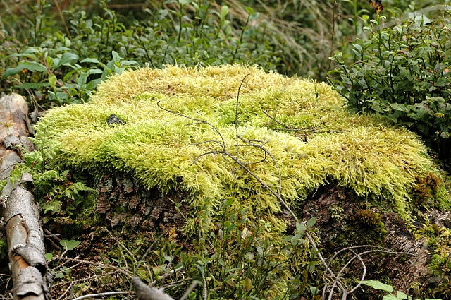 Picture taken in Commanster, Belgian High Ardennes . Species: Brachythecium velutinum